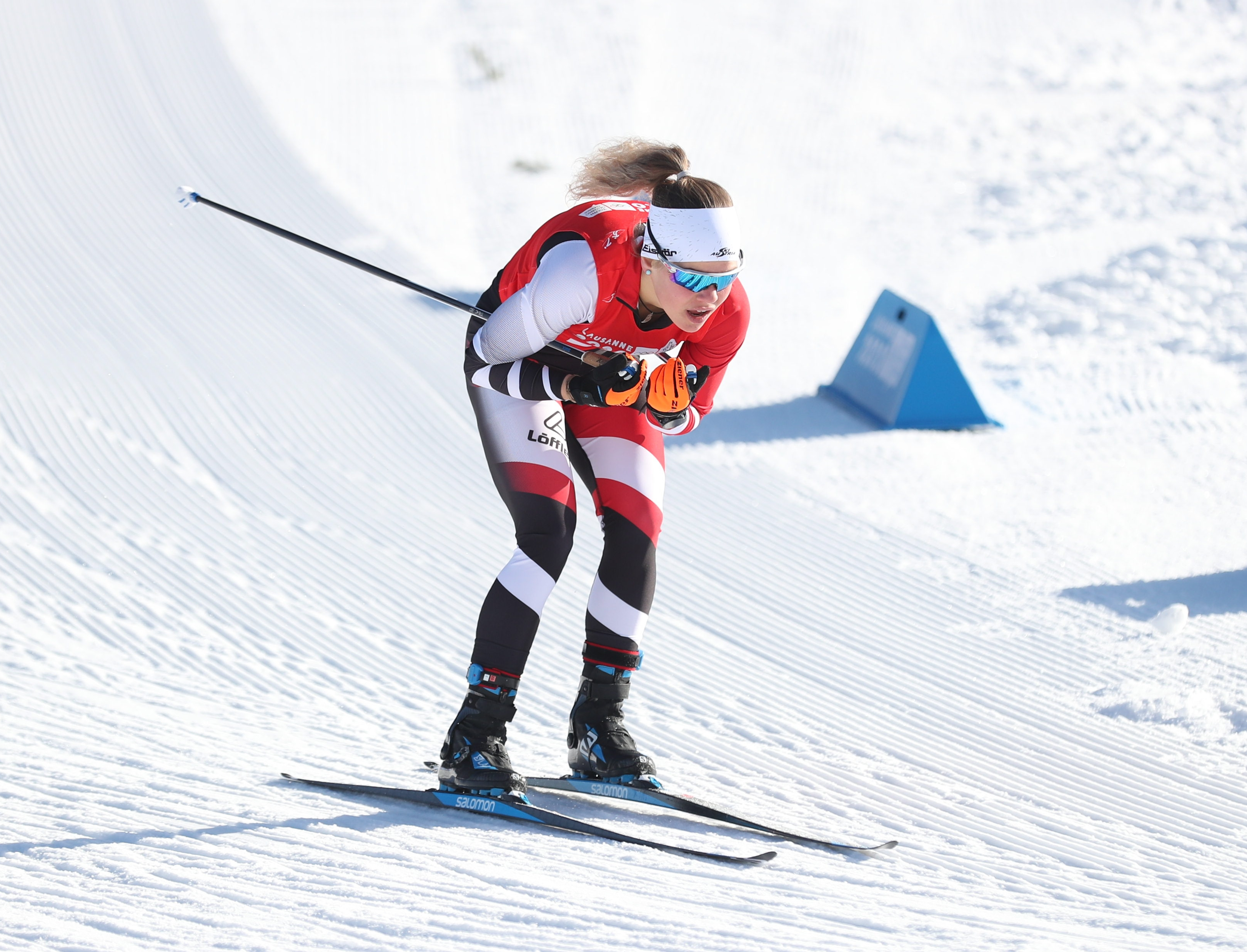 Cross-Coutry skiing 4 x 3.3 km at the Nordic Mixed Team competition at the 2020 Winter Youth Olympics in Lausanne